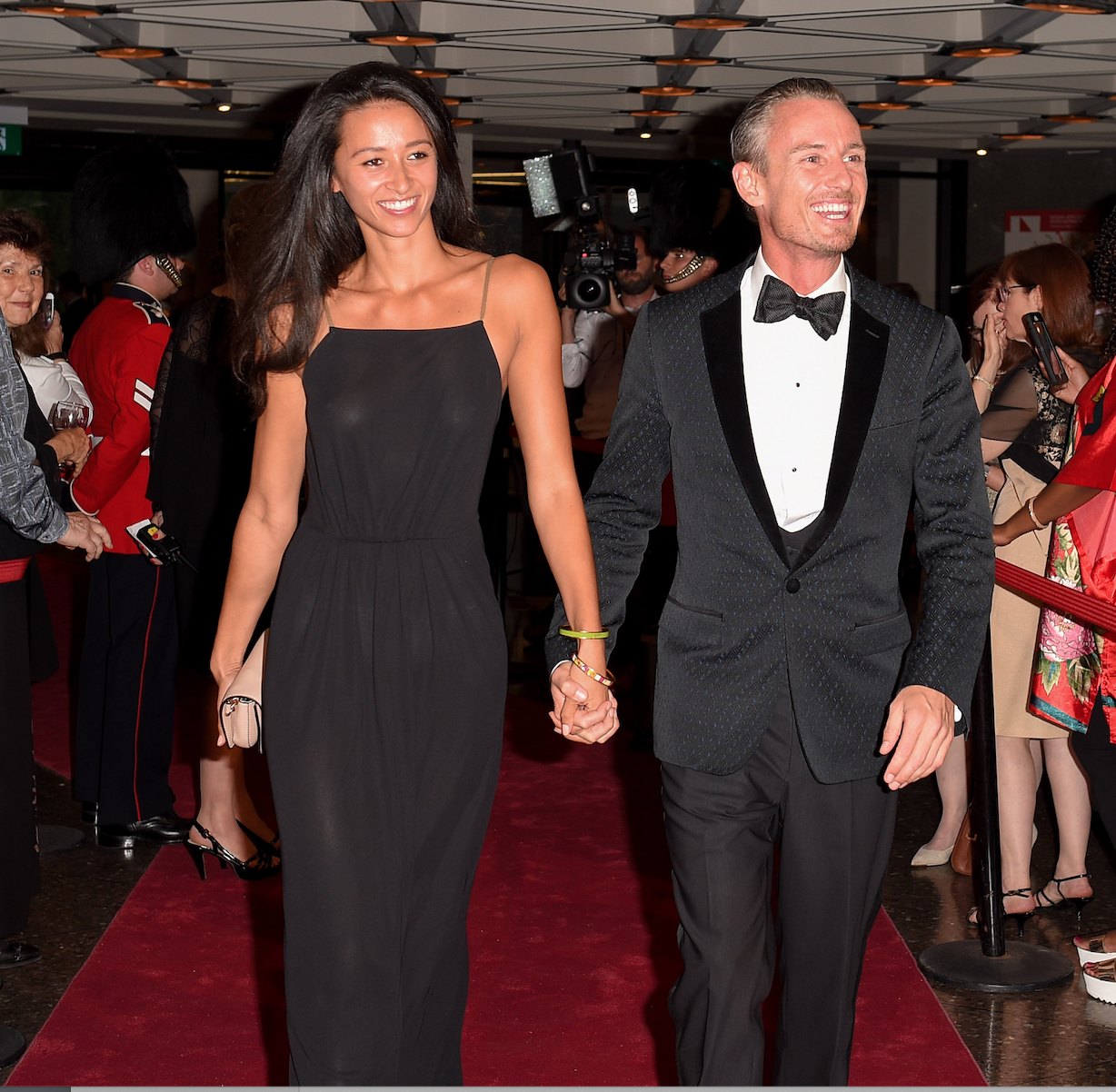 Canada's National Arts Centre Music Director and Conductor Alexander Shelley with his wife Zoe on the red carpet at the National Arts Centre Gala 2017